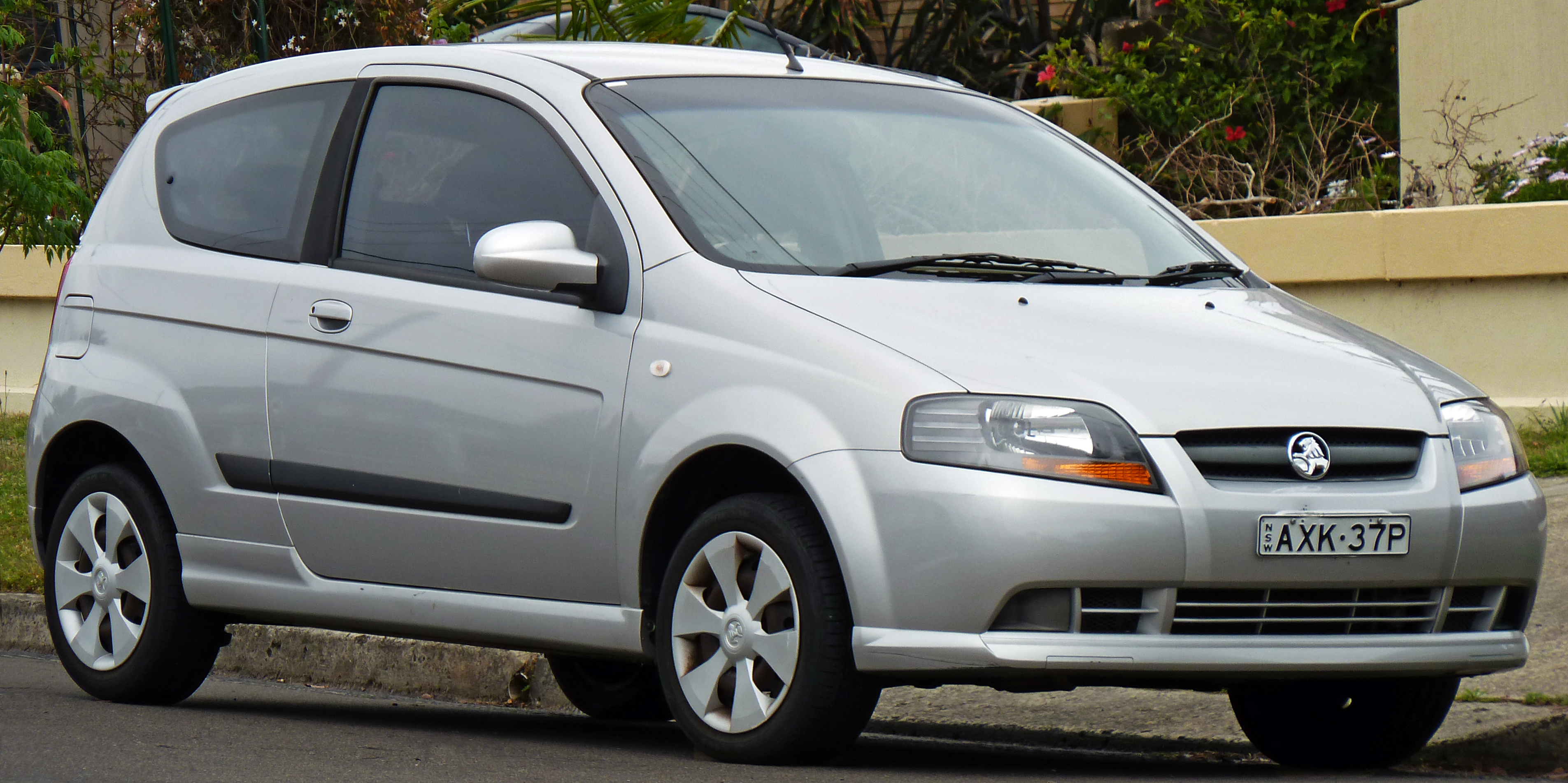 2006 Holden Barina (TK) 3-door hatchback. Photographed in Sandringham, New South Wales, Australia.